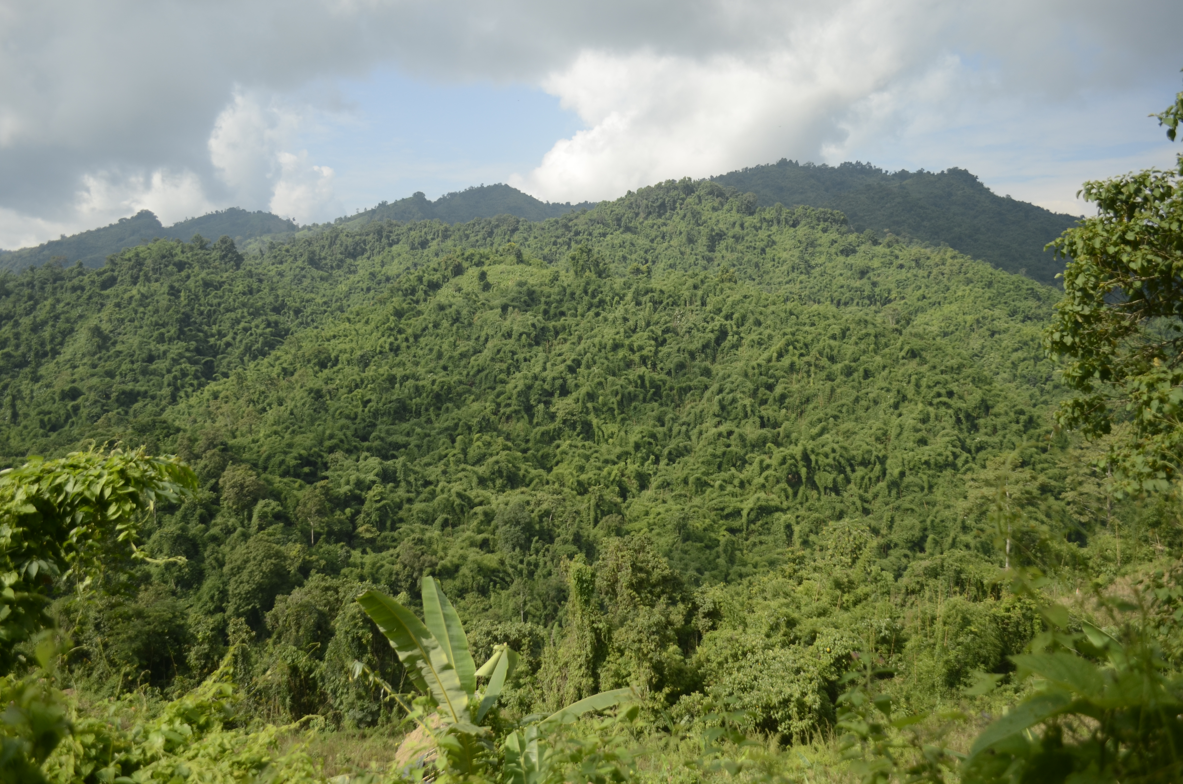 Forest around Pangti Village and Doyang Dam region Nagaland